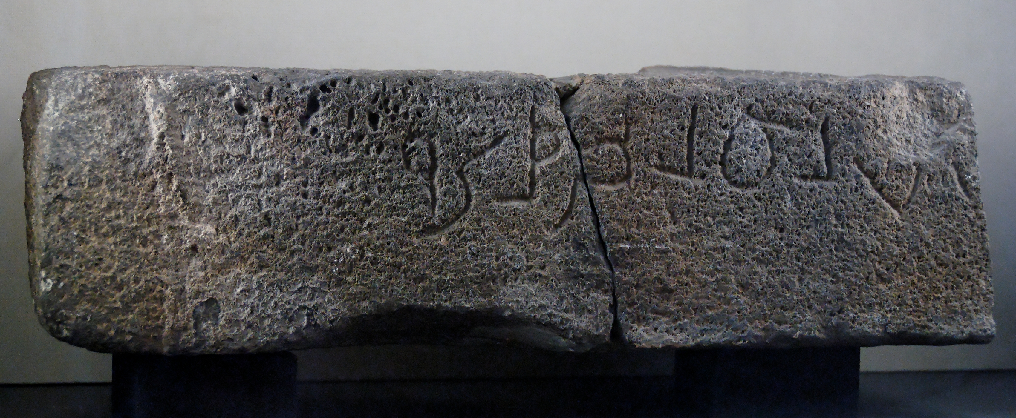 Fragment from a dedicatory inscription in Nabataean script to the god Qasiu. Basalt, 1st century AD. Found in Sia in the Hauran, Southern Syria.